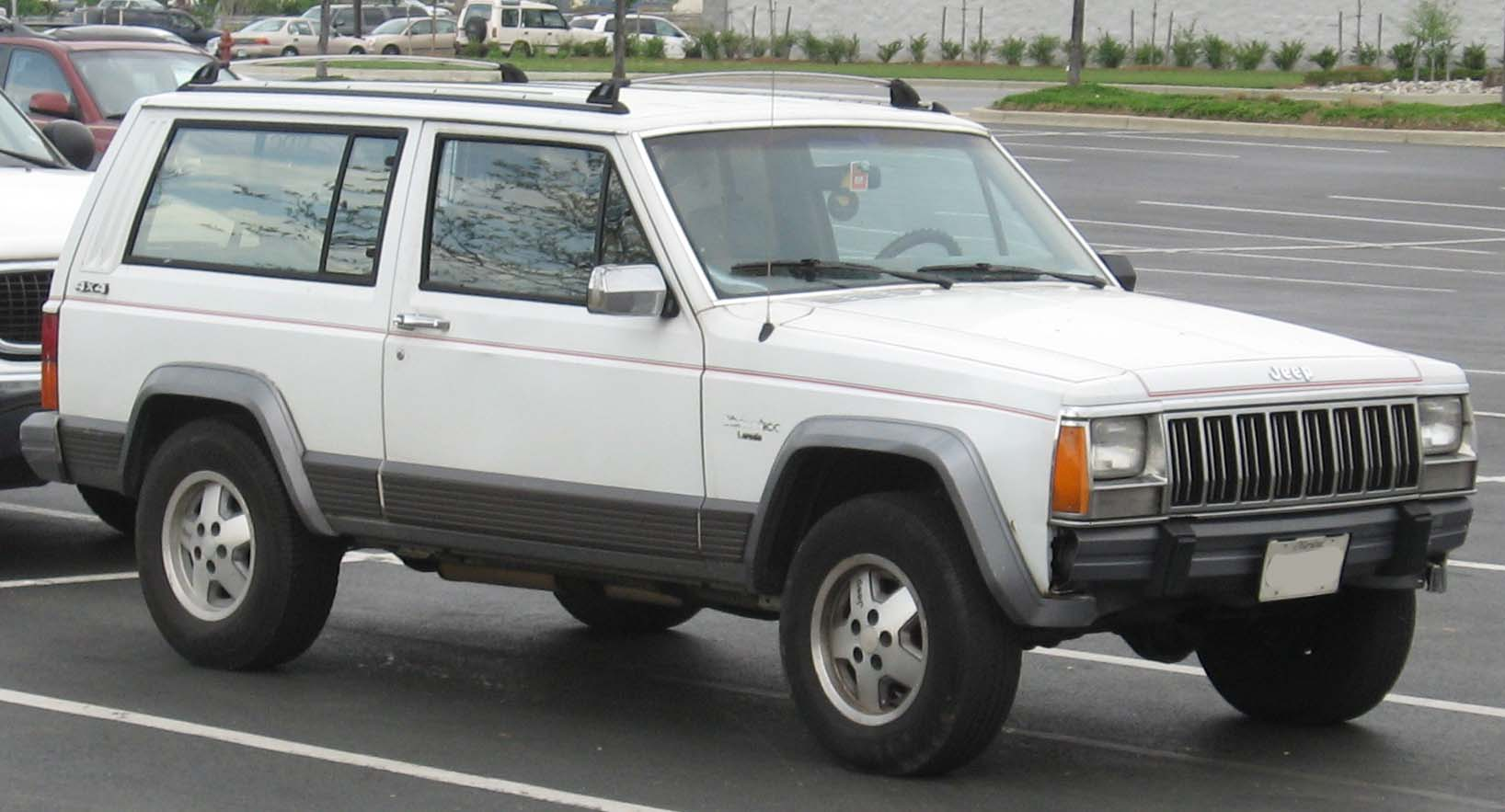 1984-1996 Jeep Cherokee photographed in USA.